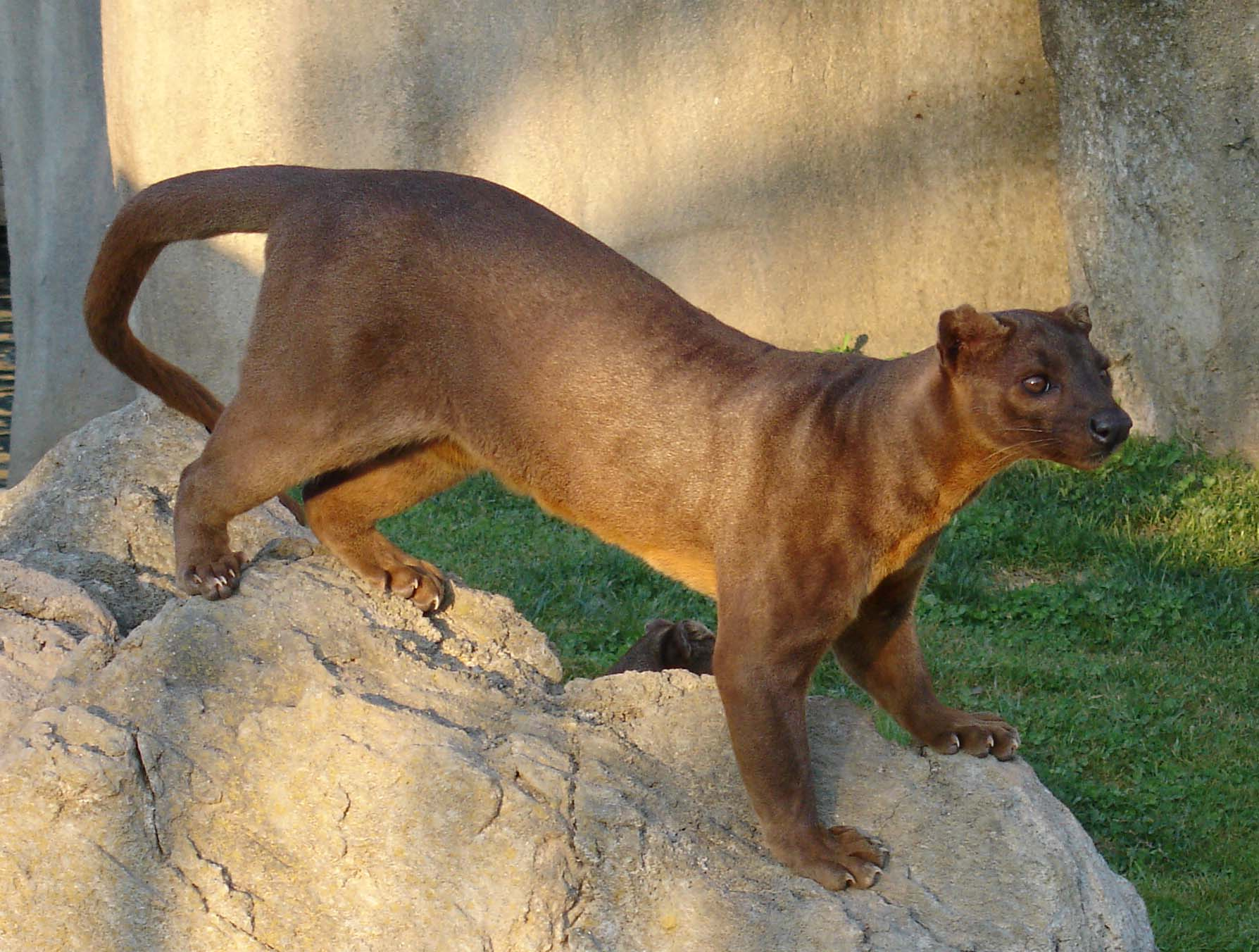 Fossa (Cryptoprocta ferox), a carnivore of Madagascar, Bioparc Valencia